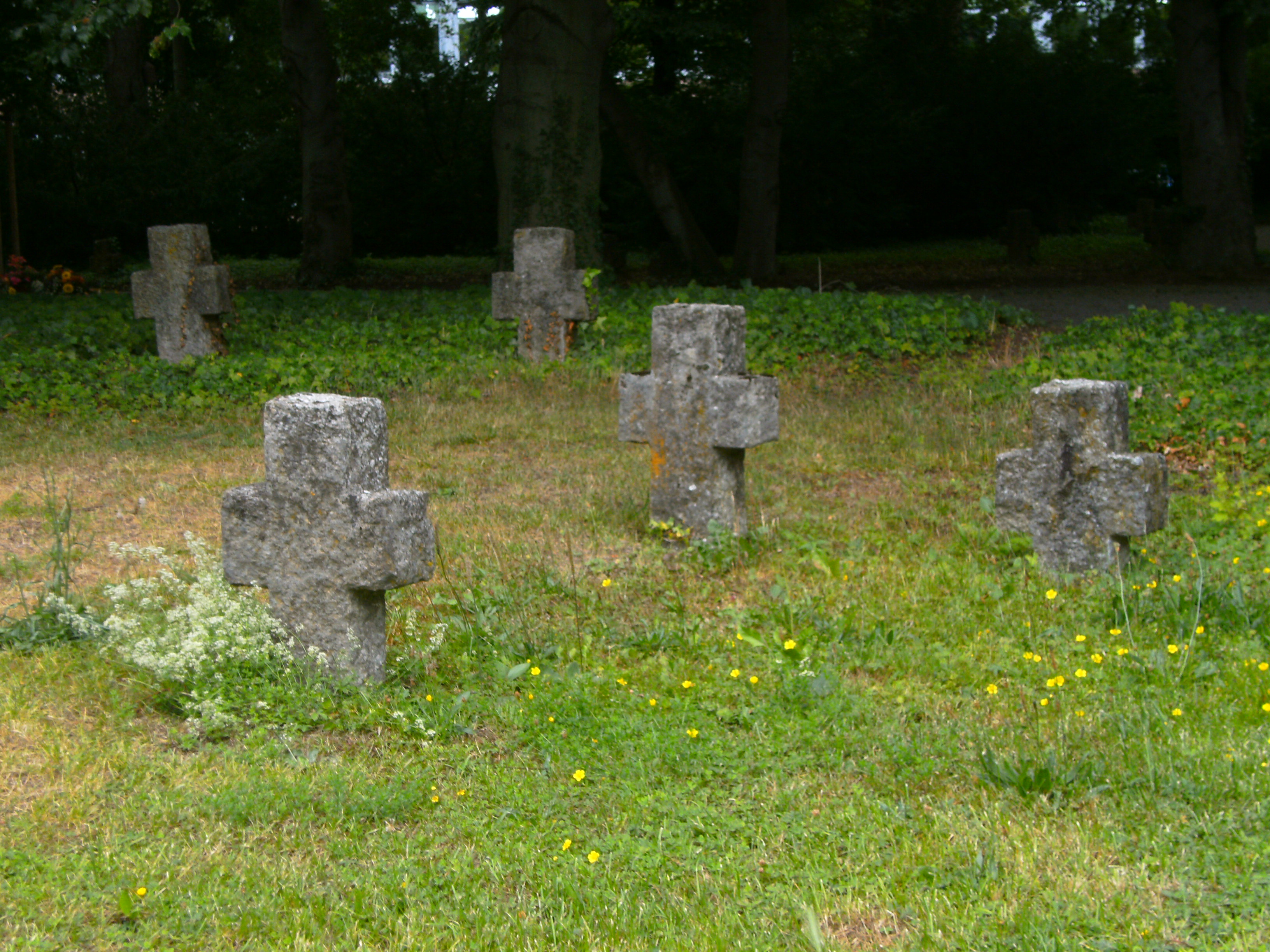 War cemetery for victims of bombing of Würzburg in World War II. Mass grave at the entrance to the Hauptfriedhof (central cemetery): Stone crosses in the front part of the massgrave.